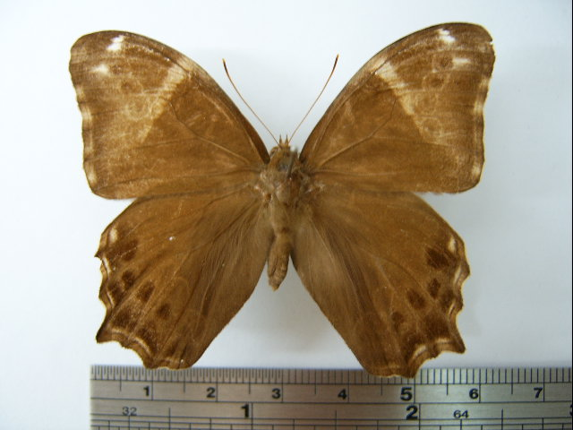 Kerry took this picture at his house on 16 July 2005 Scientific name: Lethe europa pavida ♂ (back) Date of collection: 25 X 1997 Place of collection: Taipei city, Taiwan